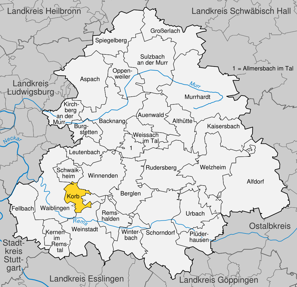 position of Korb within the Rems-Murr-Kreis, Baden-Württemberg, Germany